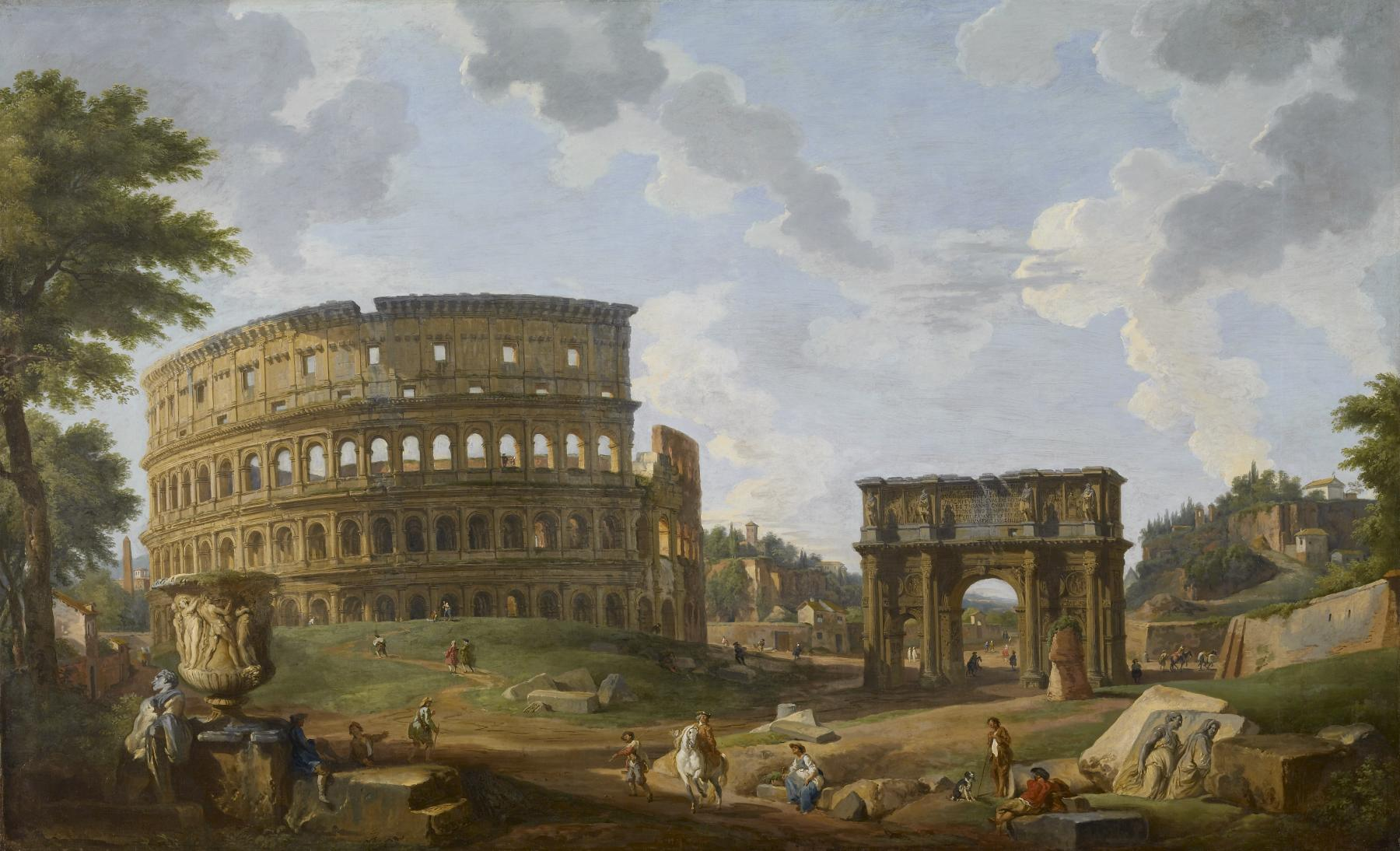 This view of the Colosseum and the Arch of Constantine is a somewhat fanciful reconstruction showing each monument from its best side. Fallen walls of the Colosseum have been tidied up, and several other works of antiquity have been introduced into the landscapes, such as the famous Borghese vase (now in the Louvre Museum, Paris) at the left. Roman ruins had become popular subjects by the 1700s, in part due to the new interest in archaeology. Panini was a master of these souvenir paintings so favored by wealthy English visitors on their Grand Tour of Europe; this painting and its companion, View of the Roman Forum, were originally in a private British collection.